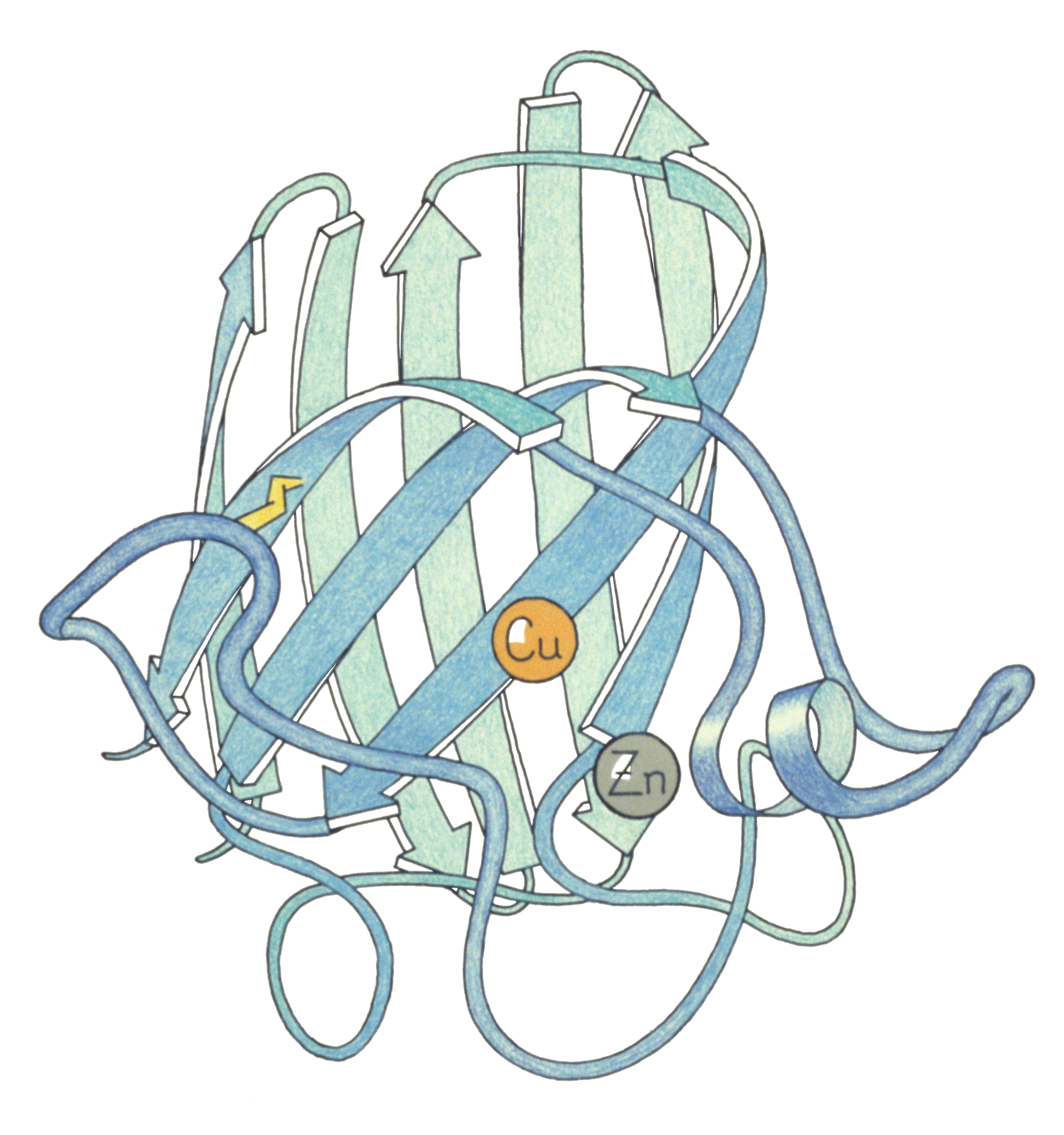 Ribbon diagram of Cu,Zn superoxide dismutase subunit from the first crystal structure (PDB file 2sod). Cu,Zn SOD is a Greek key beta-barrel enzyme that protects against damage from the O-- radical. Active-site copper and zinc are labeled, and disulfide is a yellow zigzag. Hand drawn by Jane Richardson in 1981 and colored with cut-out film on the metals and colored pencils on the ribbons, to match the blue and blue-green colors given to the crystal by the copper site. Photographed and cleaned in 2002; touched up for pure white background in 2012.